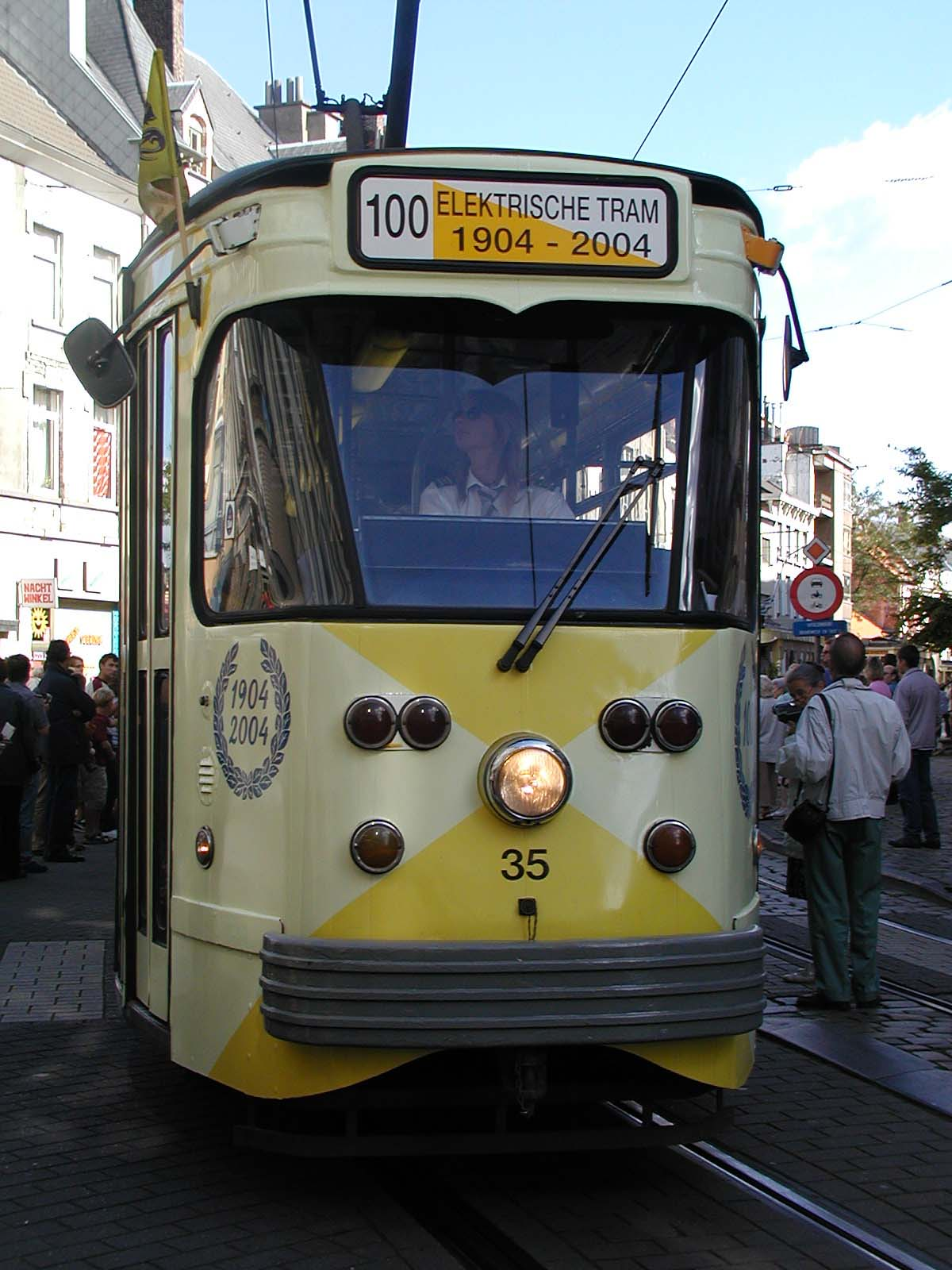 Ghent tram